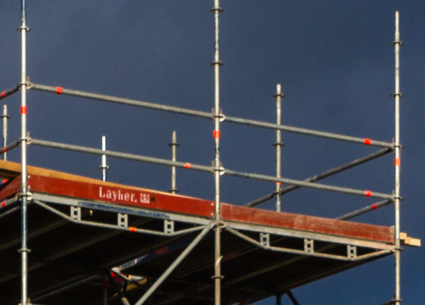 prefabricated modular system scaffold of Layher corp. of Tea pavillion construction works